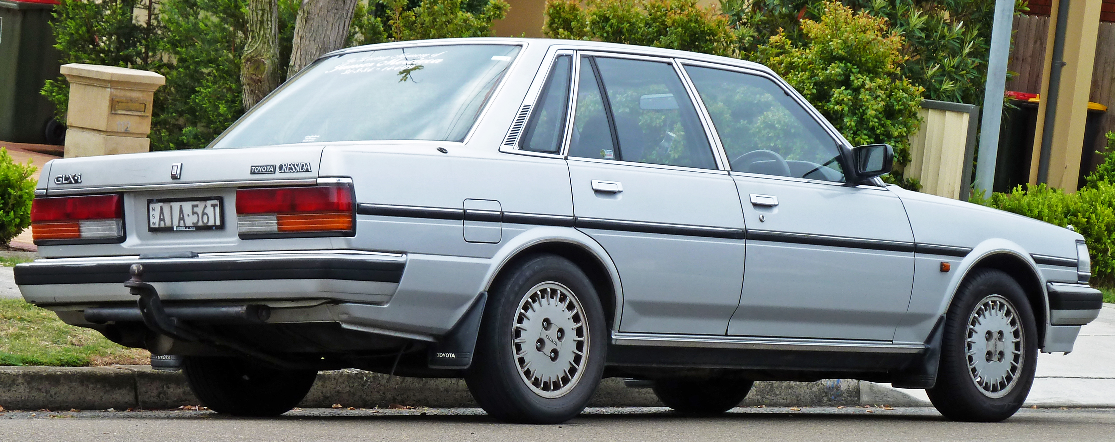 1985 Toyota Cressida (MX73) GLX-i sedan. Photographed in Sans Souci, New South Wales, Australia.